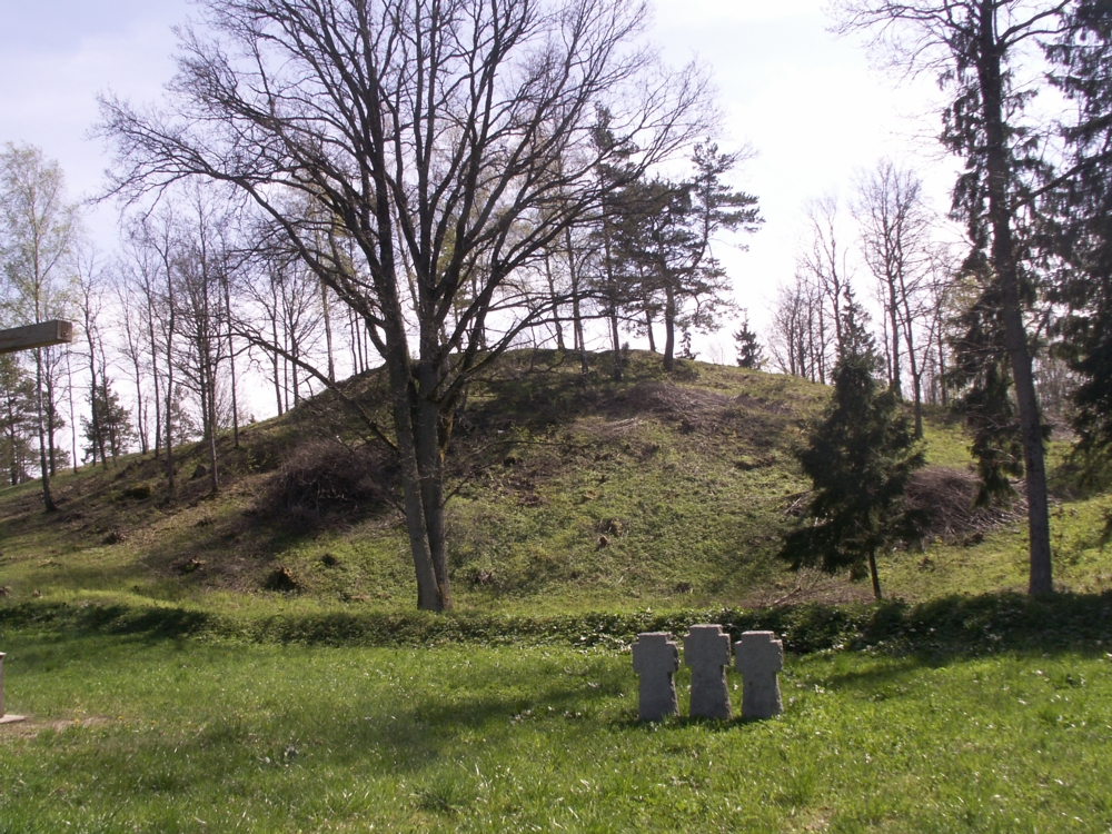 Girnikai fill fort, Šiauliai district, Lithuania